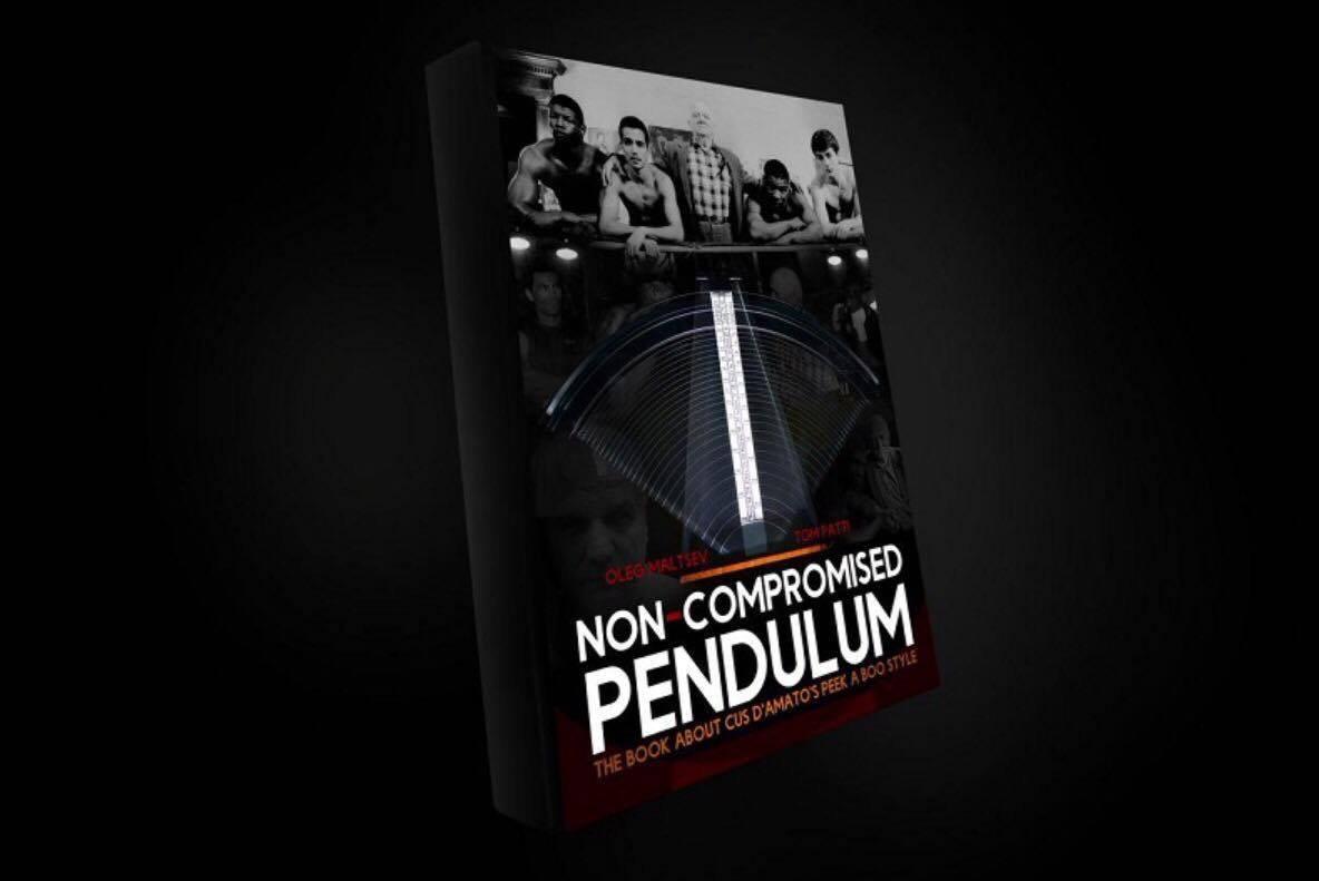 The book about Cus D'Amato's peek a boo style